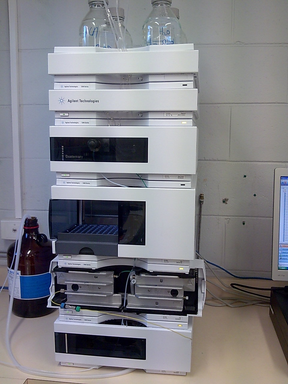 View of an Agilent 1200 High-performance liquid chromatography (HPLC) system with automatic sample carriage, quaternary pump, multiple wavelength detector and no column fitted, connected via ethernet to a PC.